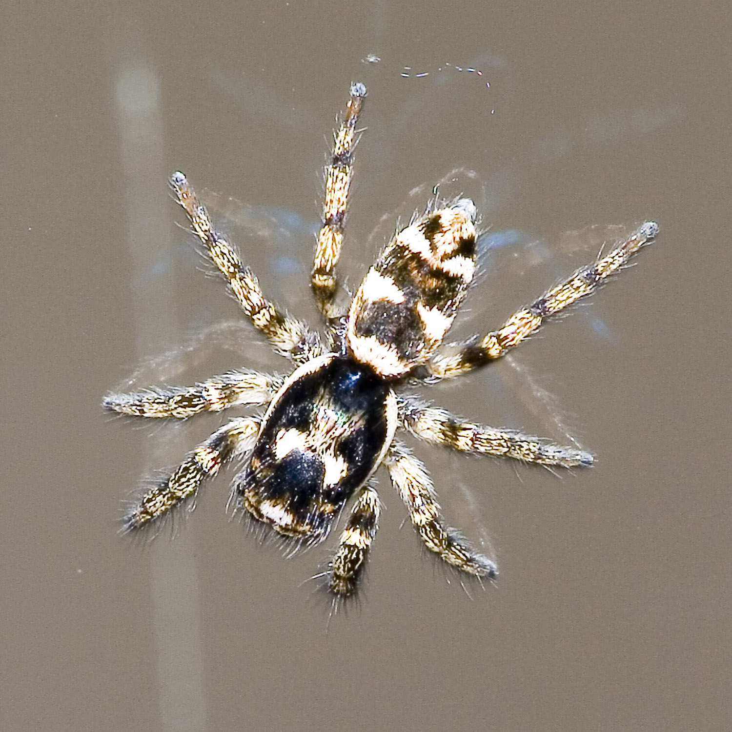 Zebra Jumper (Salticus scenicus)